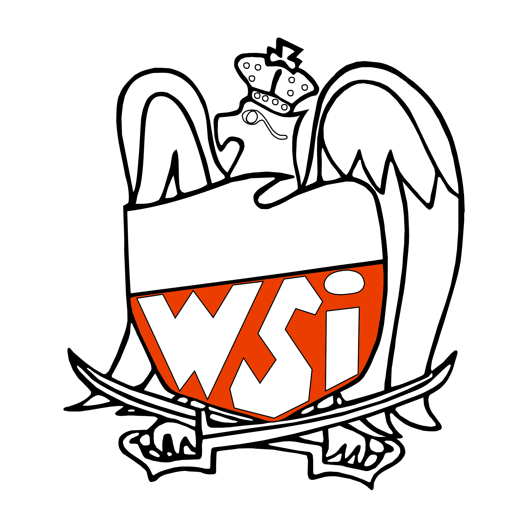 Emblem of the Polish Military Information Services